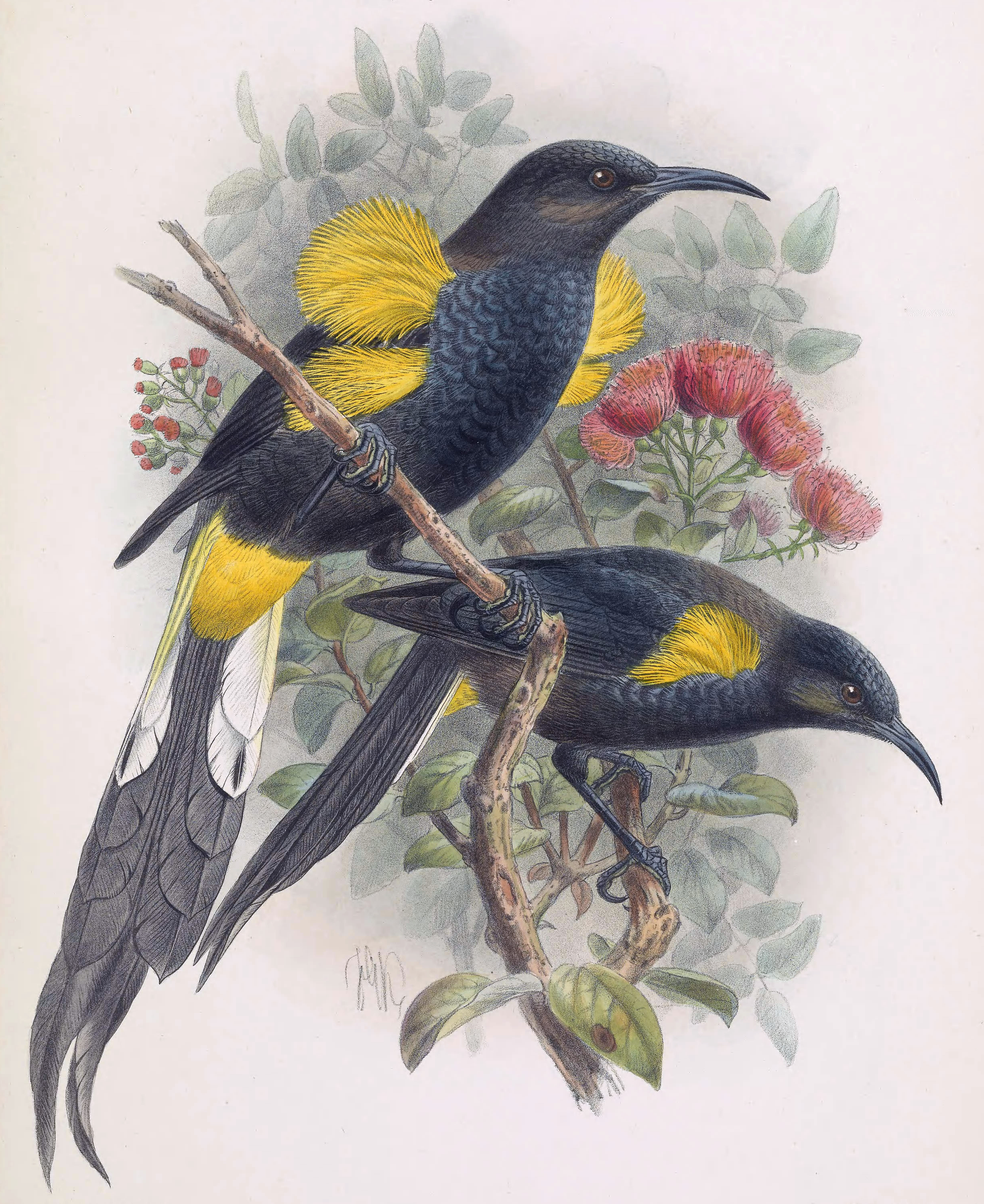 Male and female Moho nobilis - Hawaii 'O'o